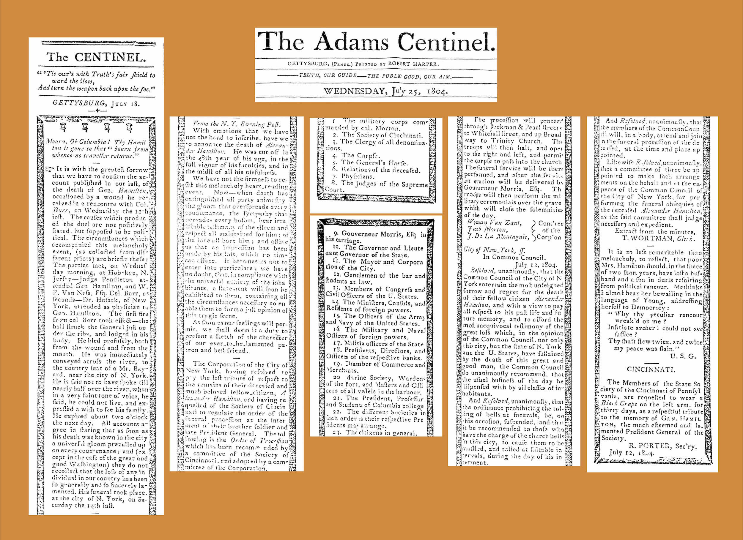 Newspaper article describing the 11 July 1804 duel between Alexander Hamilton and Aaron Burr (The Adams Centinel, Gettysburg, Pennsylvania, 25 July 1804). Uploader digitally "cut and pasted" original newspaper text, which was in two very tall columns, not suitable for Wikipedia articles. Note that Version 1 (below) is a higher-resolution version that can be downloaded for uses requiring higher resolution. The lower-resolution version (Version 2) is suitable for online uses. Do not revert.